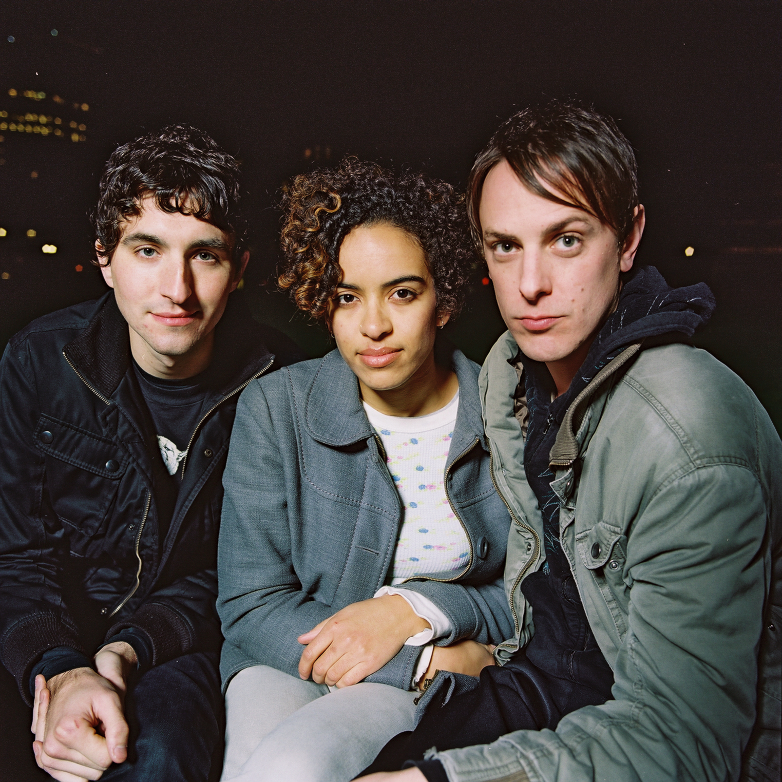 L to R: Westin Glass, Kathy Foster, Hutch Harris (taken by Alicia J. Rose)